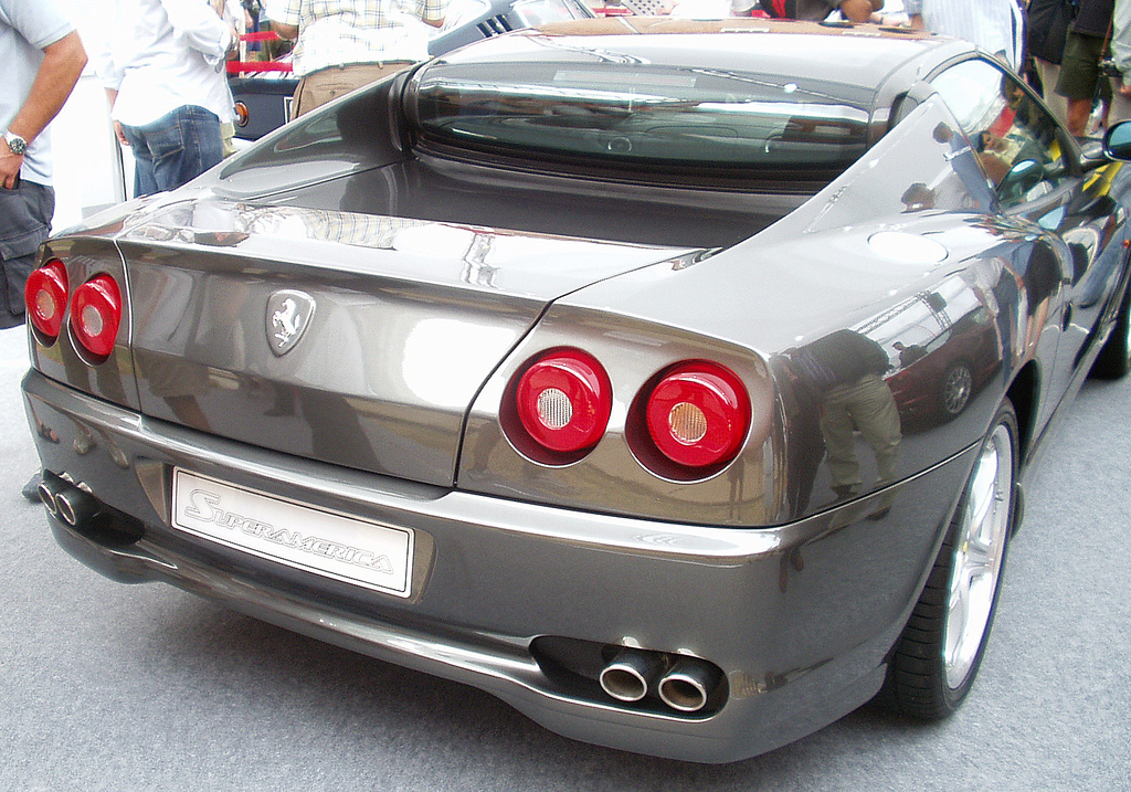 A view of the rear of the 2006 Ferrari 575M SuperAmerica car. Image was taken at the 2006 Goodwood Festival of Speed, West Sussex, United Kingdom.